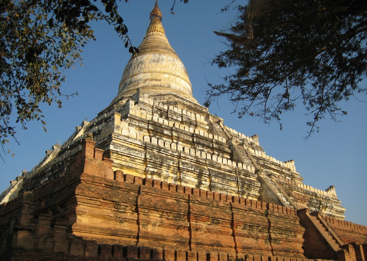 Bagan